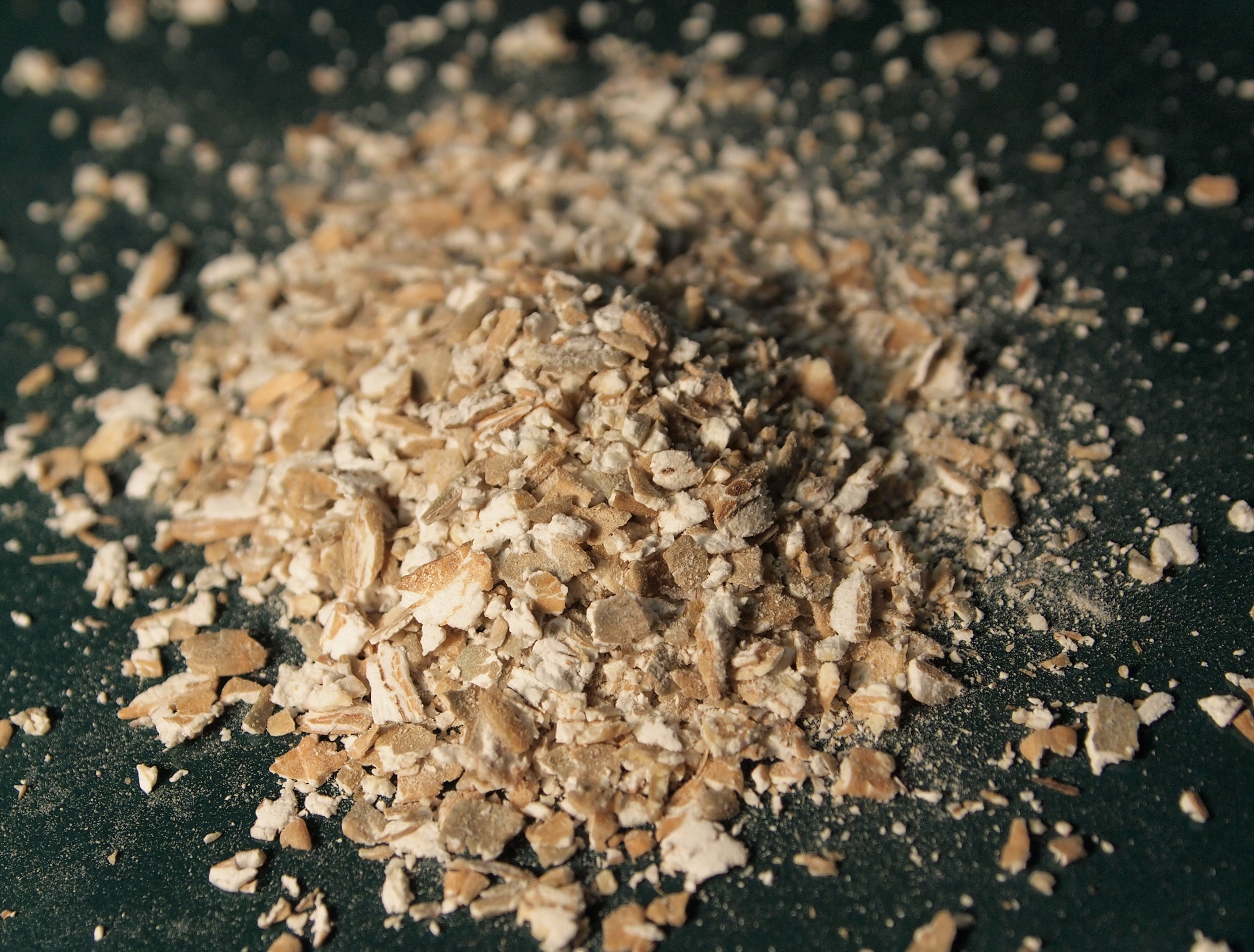 Crushed rye. The product is "Korpelan Myllyn Ruisrouhe".